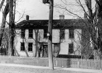 Original caption: “The picket fence in front of the “double house” that John and Jonathan Ashbridge built around 1811. Photo taken by Wellington Ashbridge in 1906. The house was torn down around 1911. From The Ashbridge Book.”